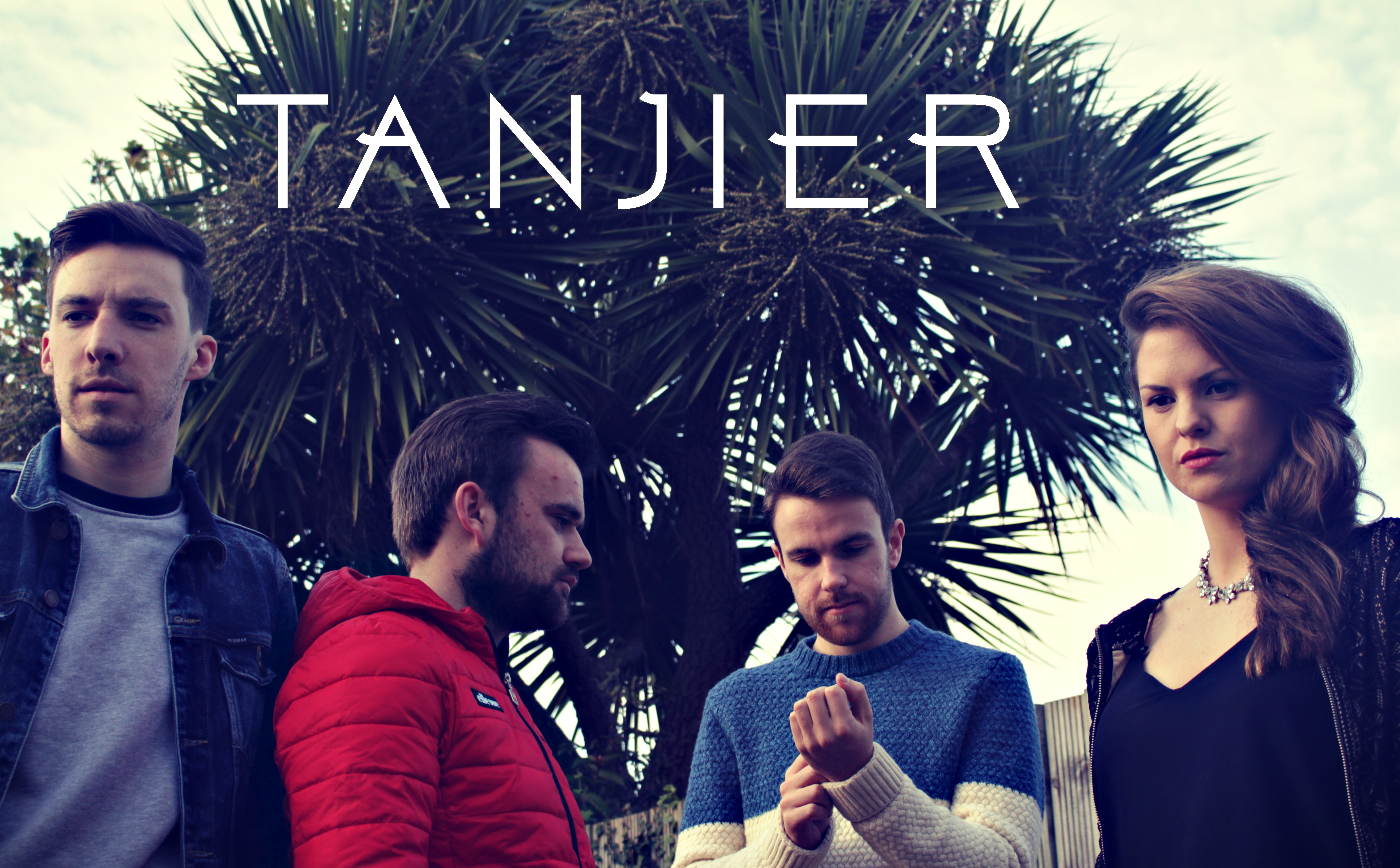 Tommy Buckley, Ronan Lynch, Mickey Killen and Ann Horan (L - R)